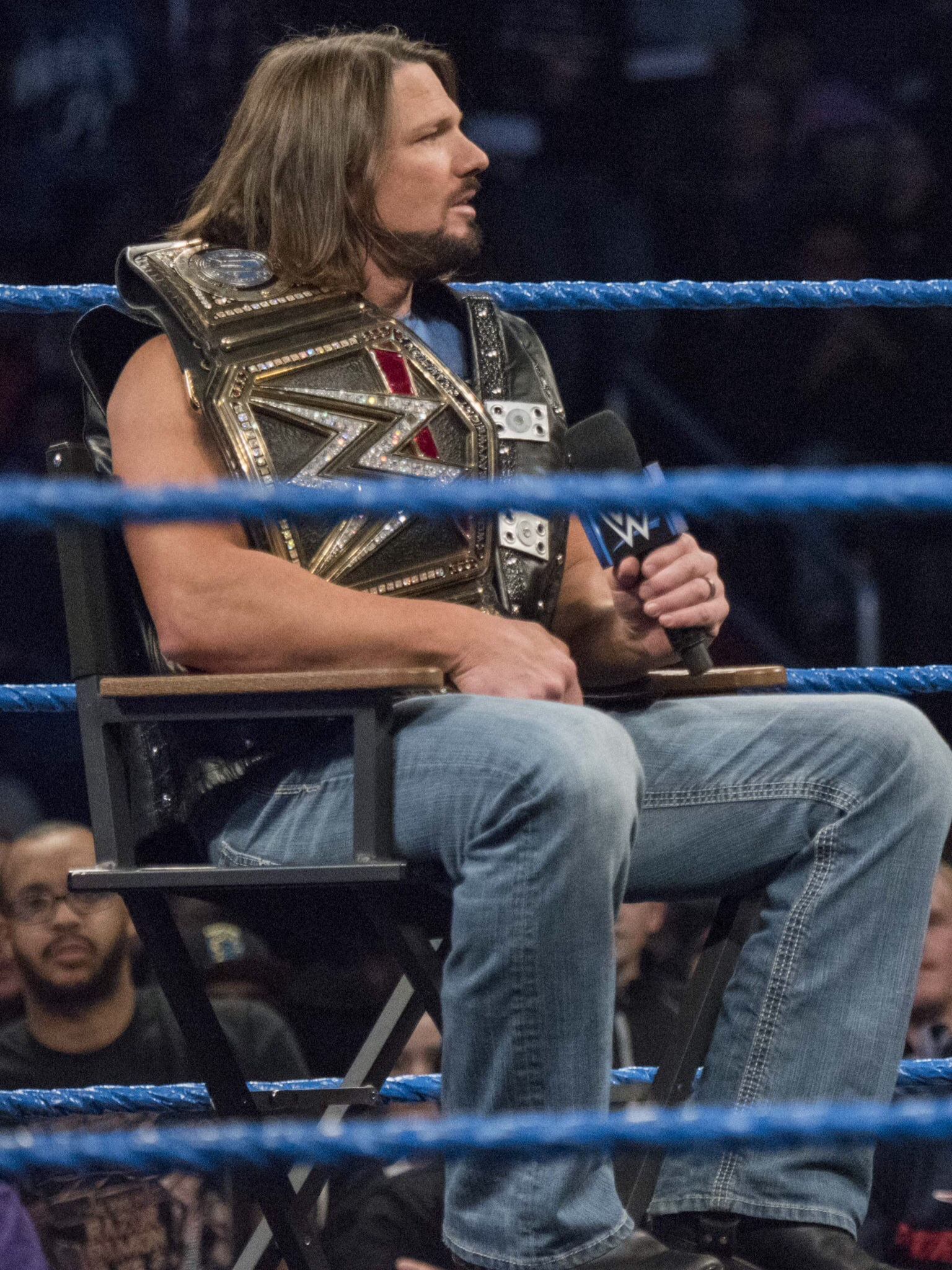 WWE performers AJ Styles and The Miz participate in the 14th Annual Tribute to the Troops Event at the Verizon Center in Washington, D.C., Dec. 13, 2016. WWE Tribute to the Troops is an annual event held by WWE and Armed Forces Entertainment in December during the holiday season since 2003, to honor and entertain United States Armed Forces members. WWE performers and employees travel to military camps, bases and hospitals, including the Walter Reed National Military Medical Center at Naval Support Activity Bethesda.. DoD Photo by Navy Petty Officer 2nd Class Dominique A. Pineiro